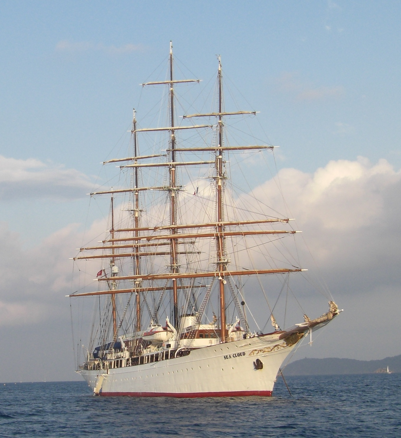 4-masted barque Sea Cloud. September 10th, 2007 in front of Porquerolles harbour, France